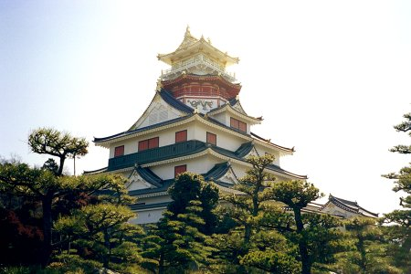 Aduchijou mogitenshu Reproduction of Azuchi Castle's main keep, at Ise Azuchi-Momoyama Bunka Mura. 伊勢・安土桃山文化村にある安土城天守風建物.